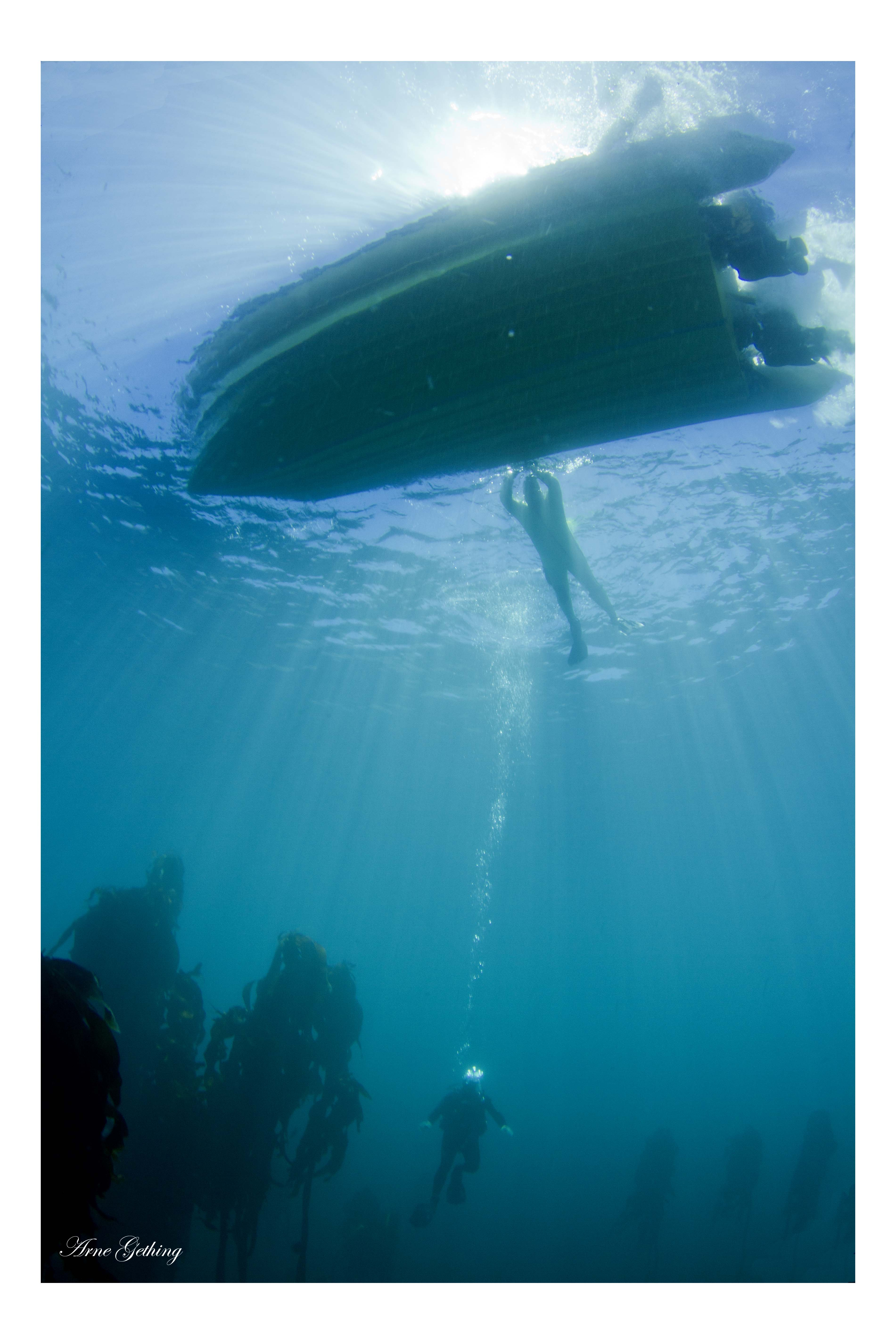 Underwater view of divers and boat at dive site G's sandy pool, Hout Bay, South Africa